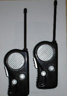 A simple walkie-talkie set.